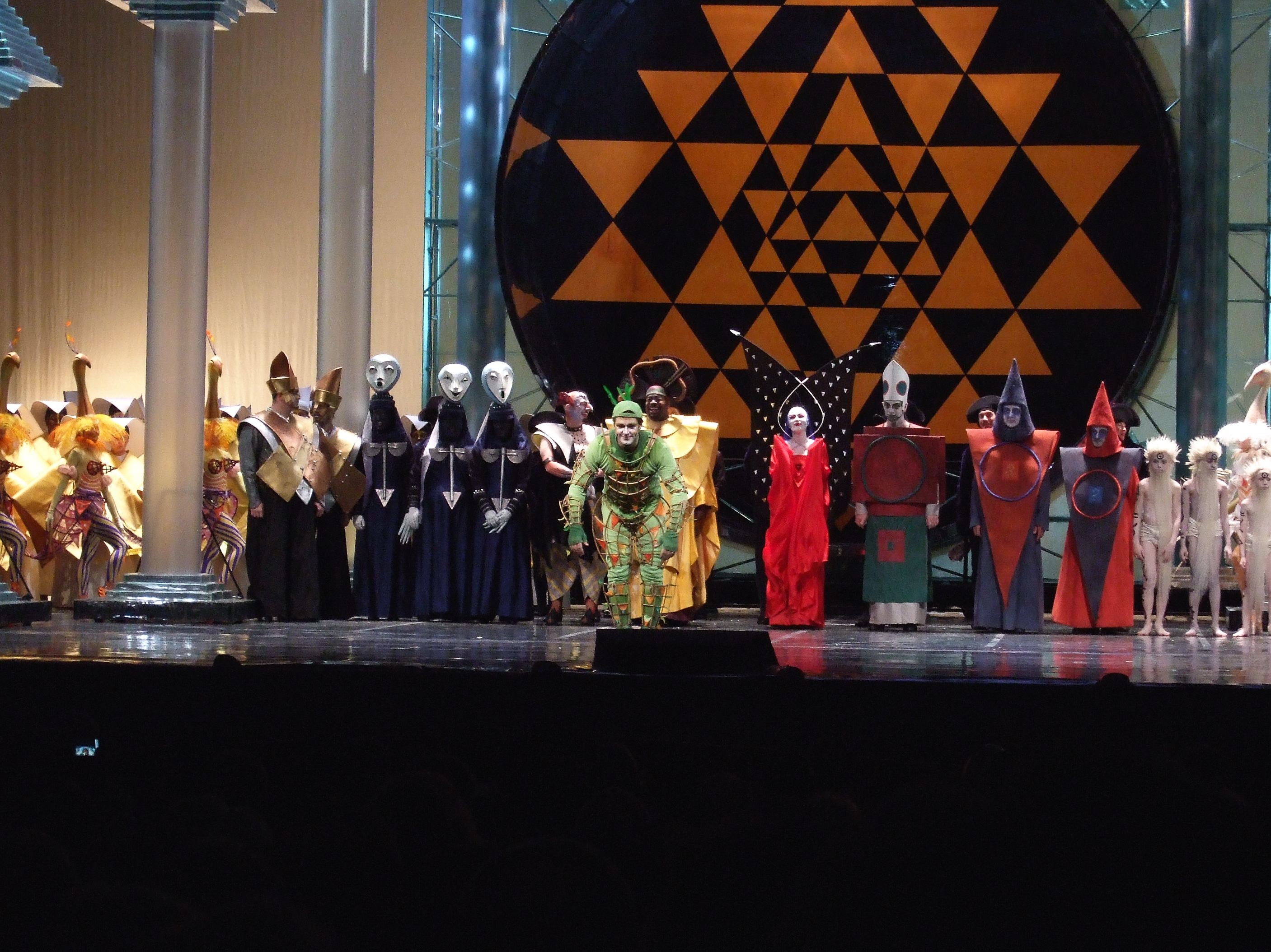 Nathan Gunn (Papageno) The Magic Flute, The Metropolitan Opera December 24, 2010